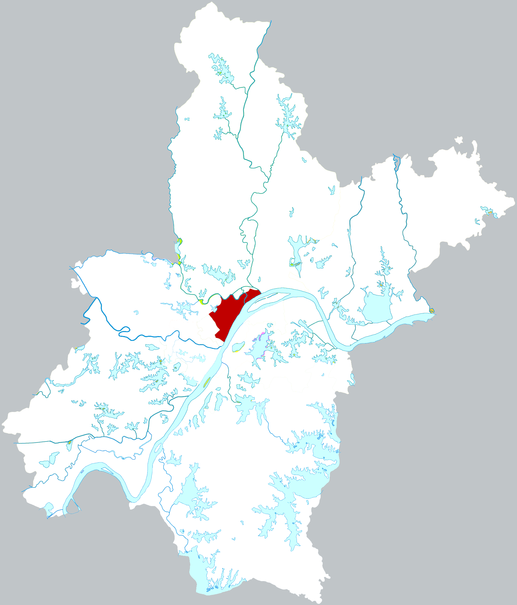 Location of Jiangan district in Wuhan city, China